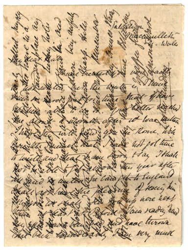 A crossed letter; England; early 19th century.